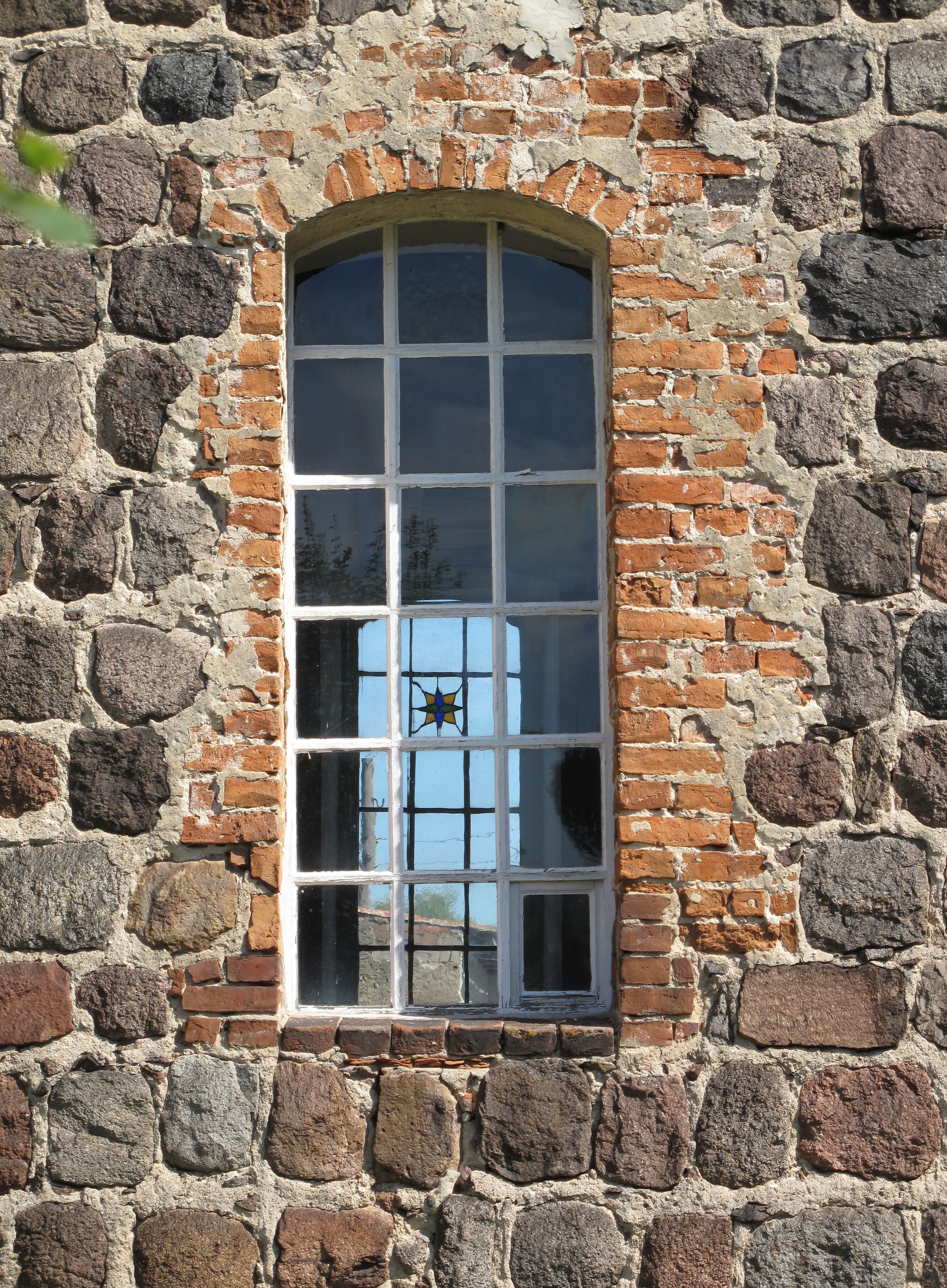 Listed village and Fieldstone church in Garzin, a village of the municipality Garzau-Garzin in the District Märkisch-Oderland, Brandenburg, Germany. The church was built in the 13th-century.